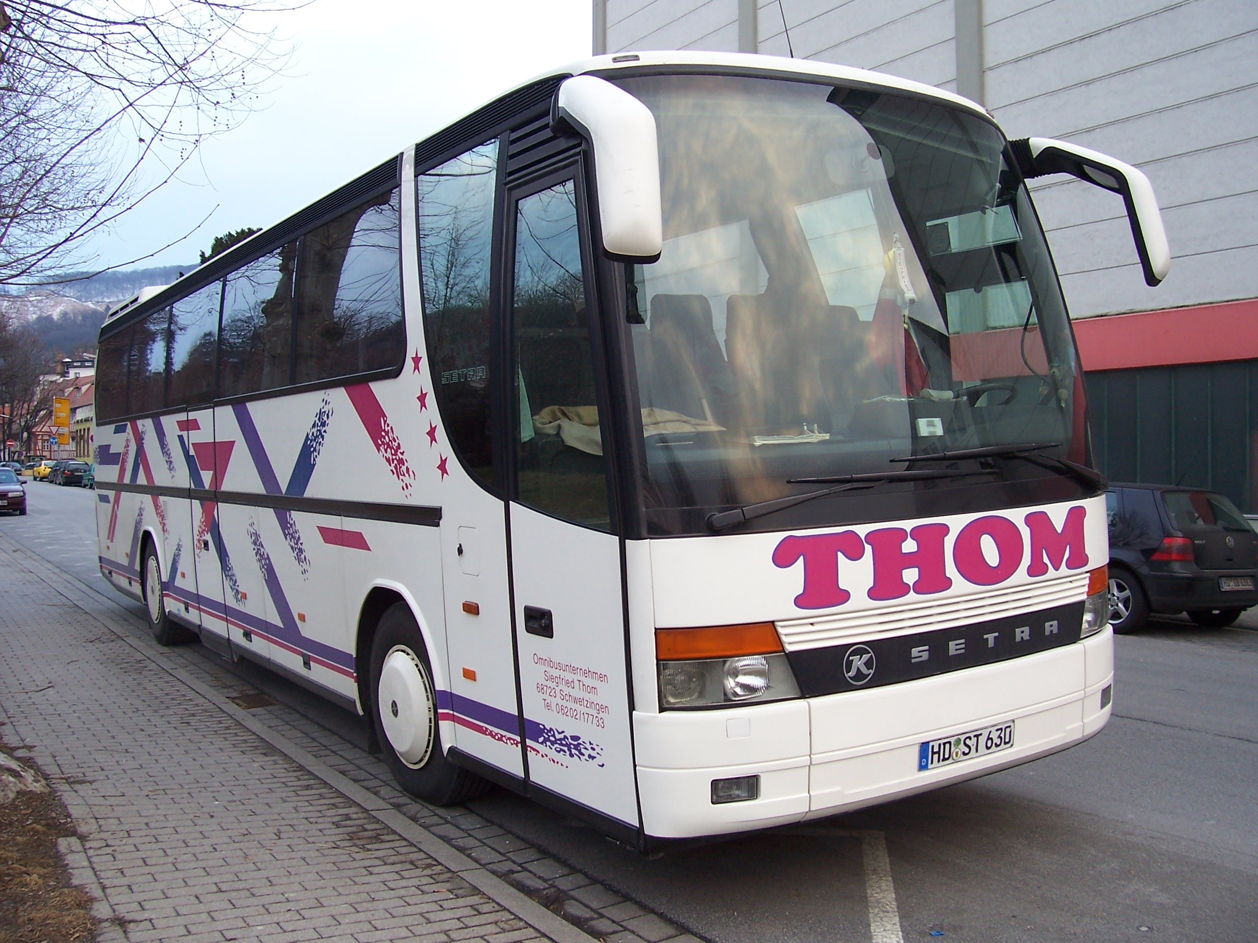 A Setra bus in Weinheim an der Bergstraße, Germany My own photo